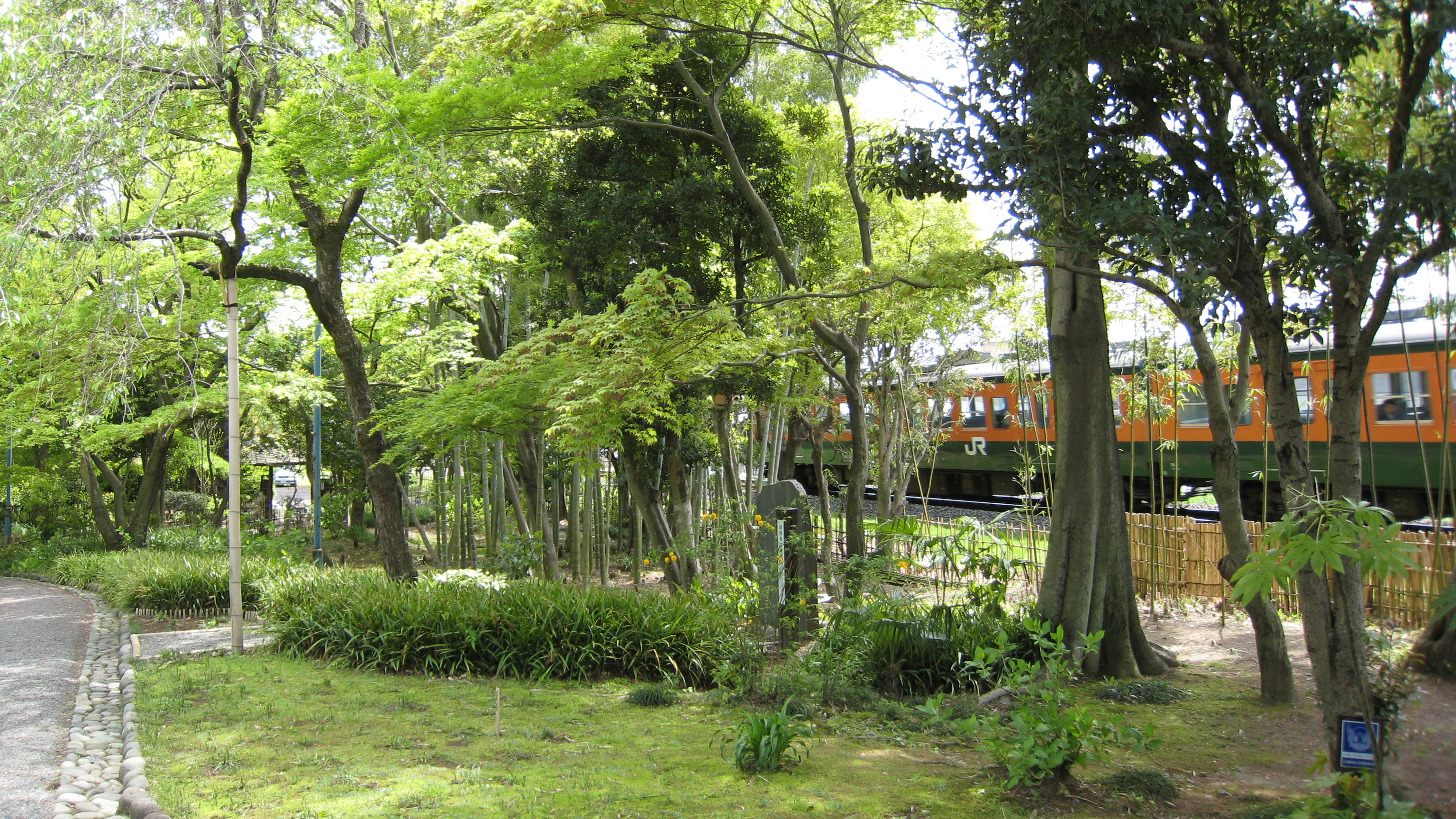 Garden at the Soun Museum of Art and Ryōmō Line in Ashikaga City, Tochigi Prefecture, Japan